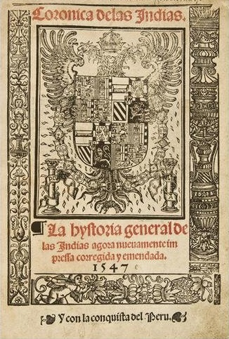 A 1547 edition of Gonzalo Fernández de Oviedo: La historia general de las Indias.